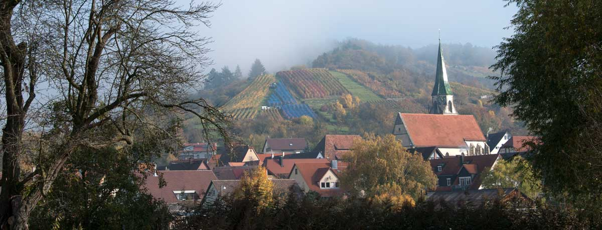 Vineyards near Tübingen-Unterjesingen